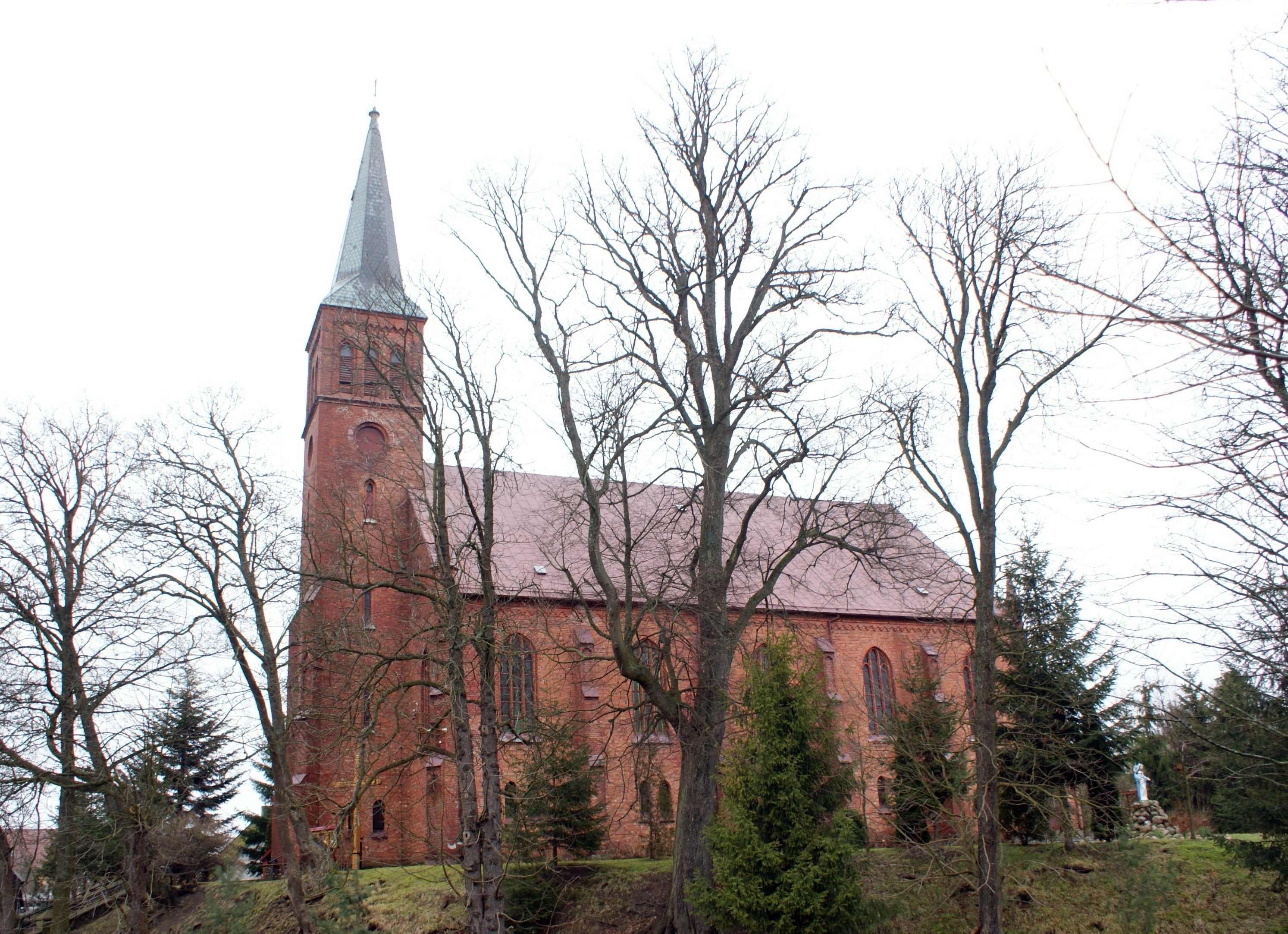 Damno-village in Słupsk County, Poland. Church of St Jude Thaddesus.